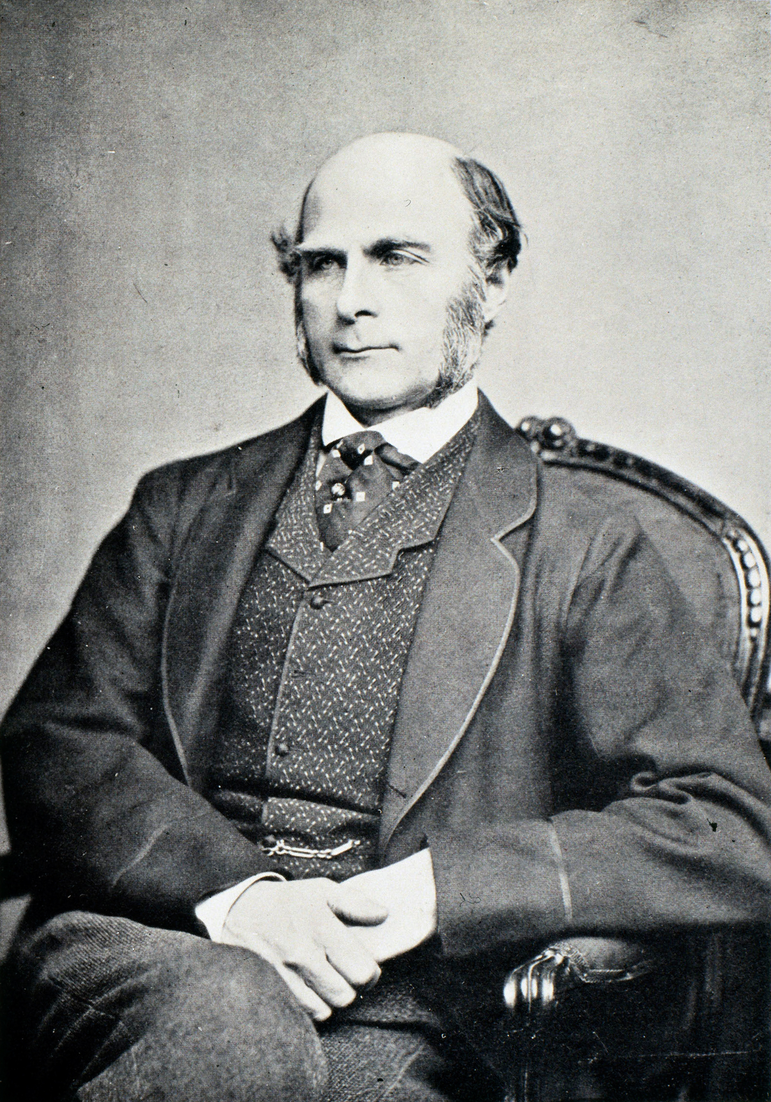 Sir Francis Galton, probably taken in the 1850s or early 1860s (labeled as "middle life" in source).